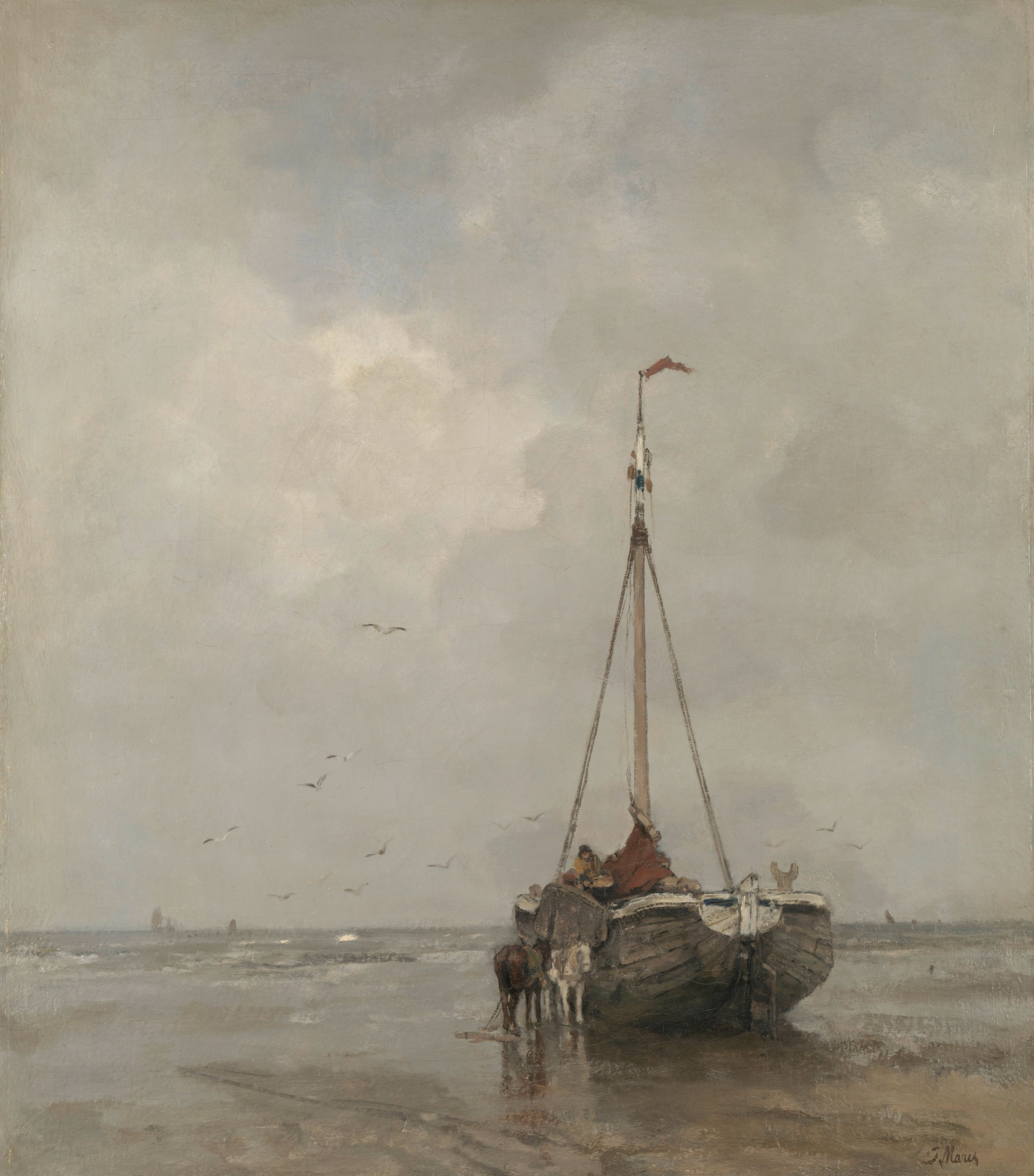 A bluff-bowed fishing boat on the beach at Scheveningen. Two horses stand beside the boat. Gulls are flying in the air.